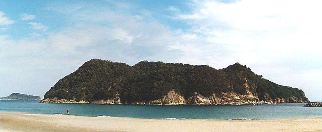 kouｊima,幸島 幸島(こうじま)、無人島。野生の猿が生息する。京都大学 霊長類研究によるサル社会の生態研究が行われた。研究の一環で餌付けが行われ、与えられたサツマイモを海水で洗う行動様式が群れに伝播する様子が確認され、サル社会においても文化の伝搬があることが証明された。観光施設は乏しい。島に渡るには手段は瀬渡し船のみ。 A doubtful machine translation) Koujima is uninhabited island. A wild monkey lives in this island. The Kyoto University primates research researched ape's society. The monkey was given food by the researcher. One of the monkeys washed the sweet potato with seawater one day. It seems that the monkey washed off dirt with seawater. This was transmitted to the crowd of the monkey. The researcher thought that the culture was spread to the ape society. Tourist facilities are not here. The transportation to the island is only a ship. Wikipedia 幸島 Kojima